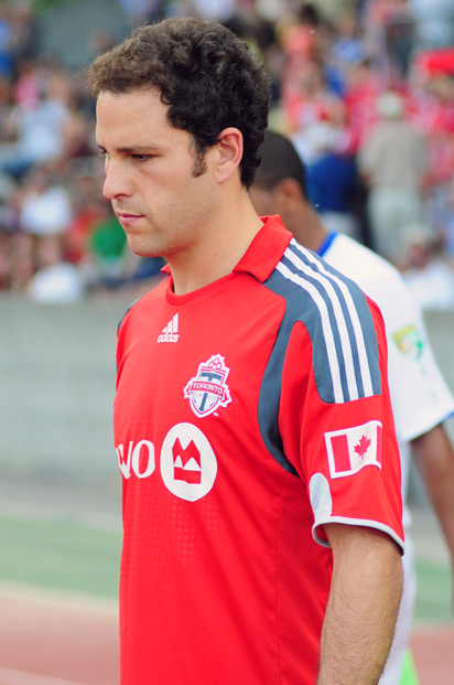 Photo of soccer player, Kevin Harmse.